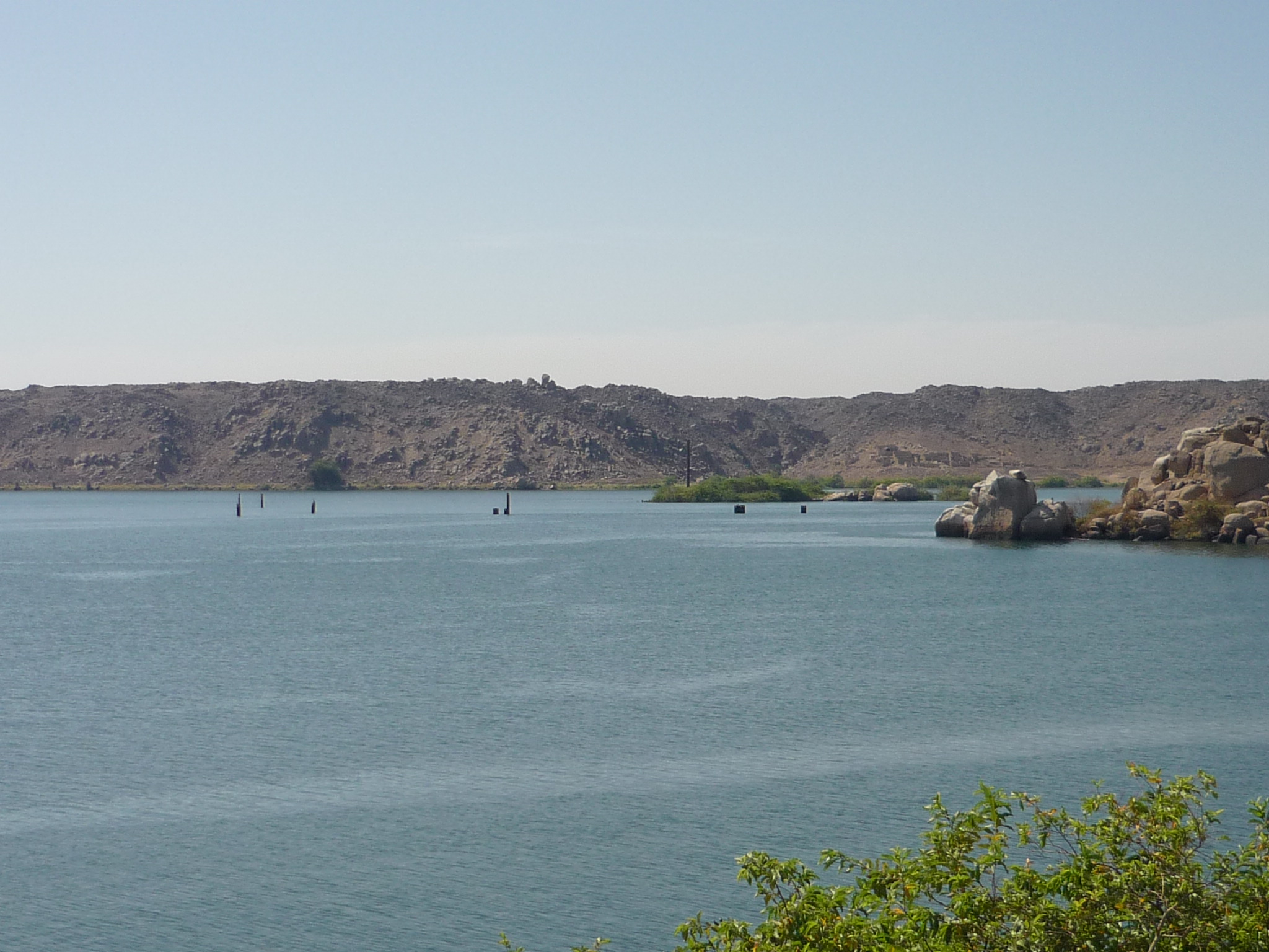 Philae Island, from Aguilkia island - where the ancient 'Philae' temples were moved to in the 1960s, in Lake Nasser - Egypt.